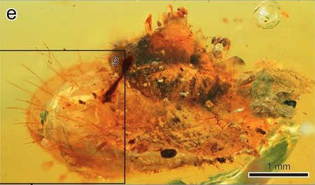 Lagocheilus electrospira Asato and Hirano, sp. nov. from mid-Cretaceous Burmese amber. Holotype of L. electrospira. (e) Abapertural view showing long hair-like periostracum.